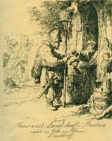 Der Rattenfänger, by Wilhelm von Abbema after Rembrandt